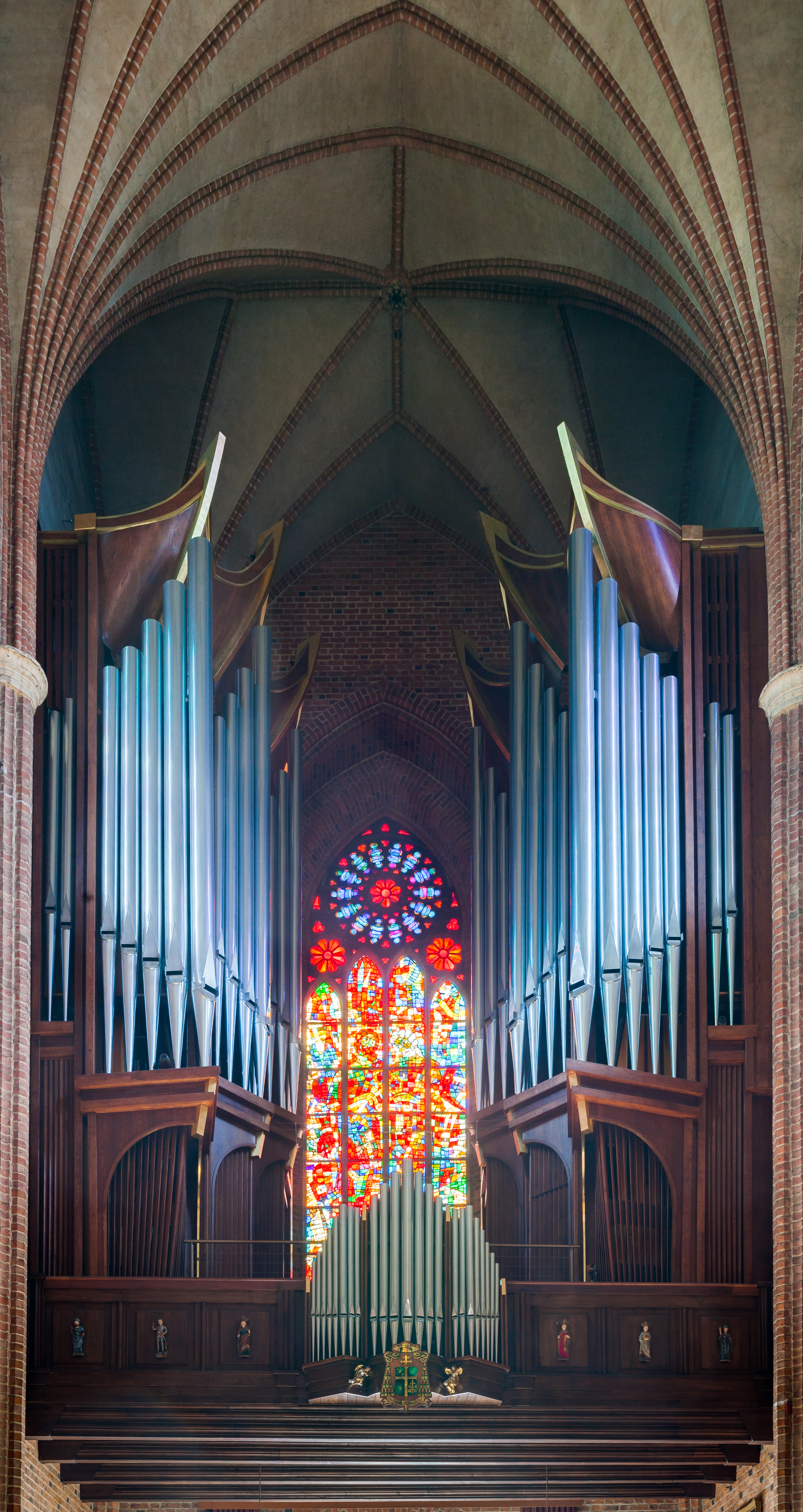 Poznan Cathedral, Poznan, Poland